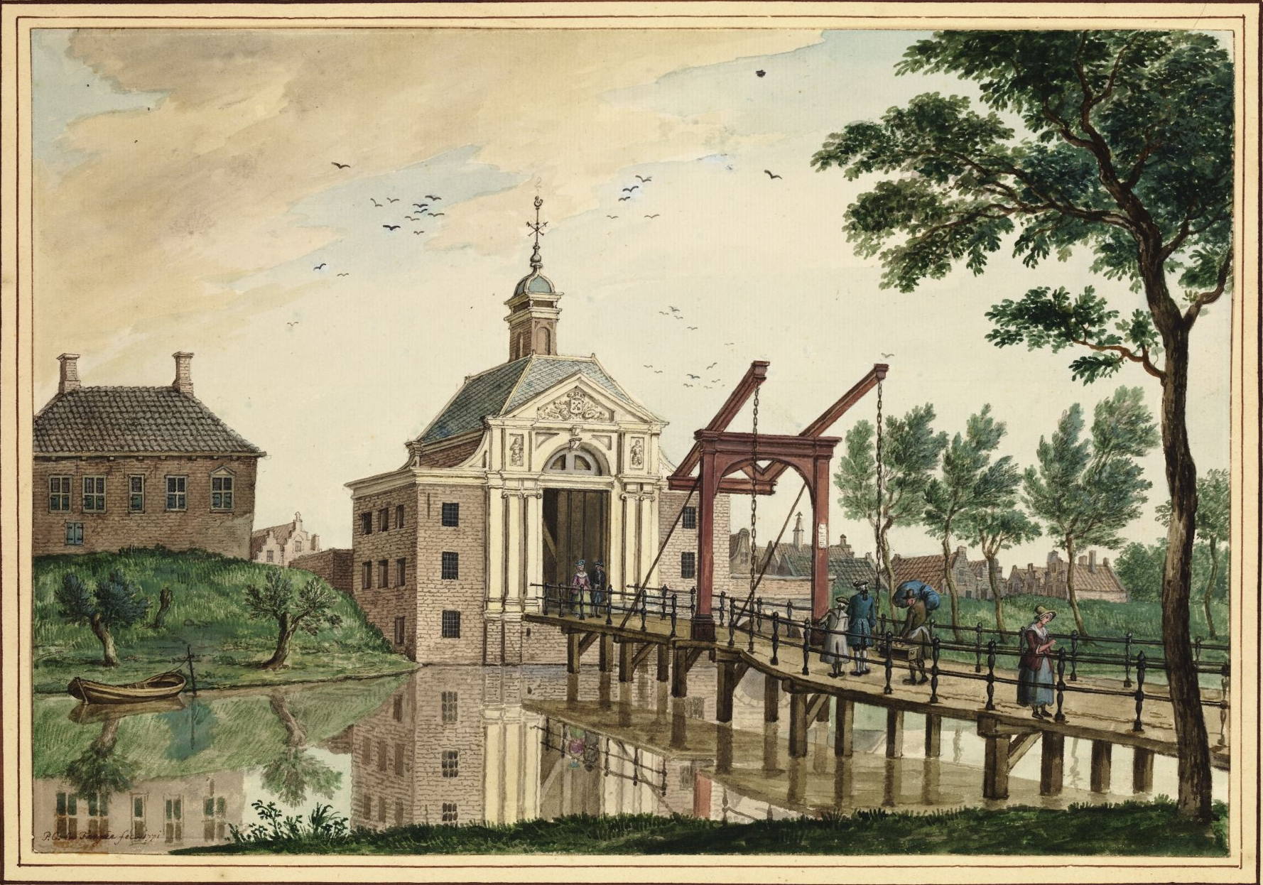 View of the Marepoort in Leiden